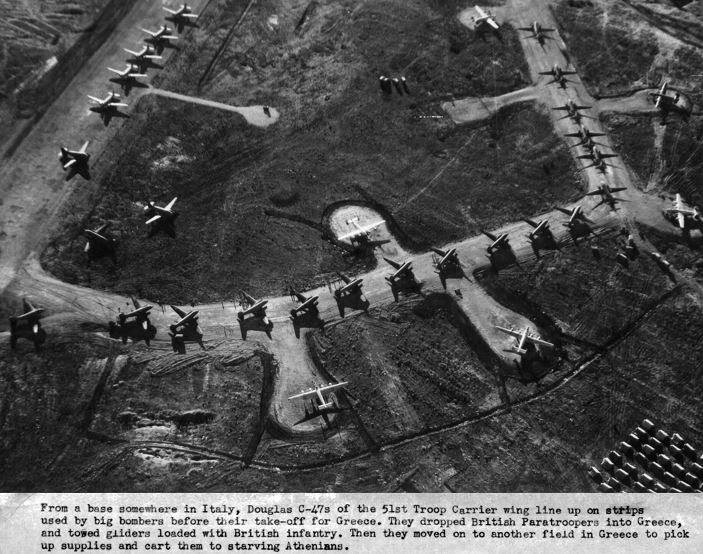 From a base somewhere in Italy, Douglas C-47s of the 51st Troop Carrier wing line up on a strips used by the big bombers before their take-off for Greece. They dropped British Paratroopers into Greece, and towed gliders loaded with British infantry. Then they moved on to a new field in Greece to pick up supplies and cart them to starving Athenians